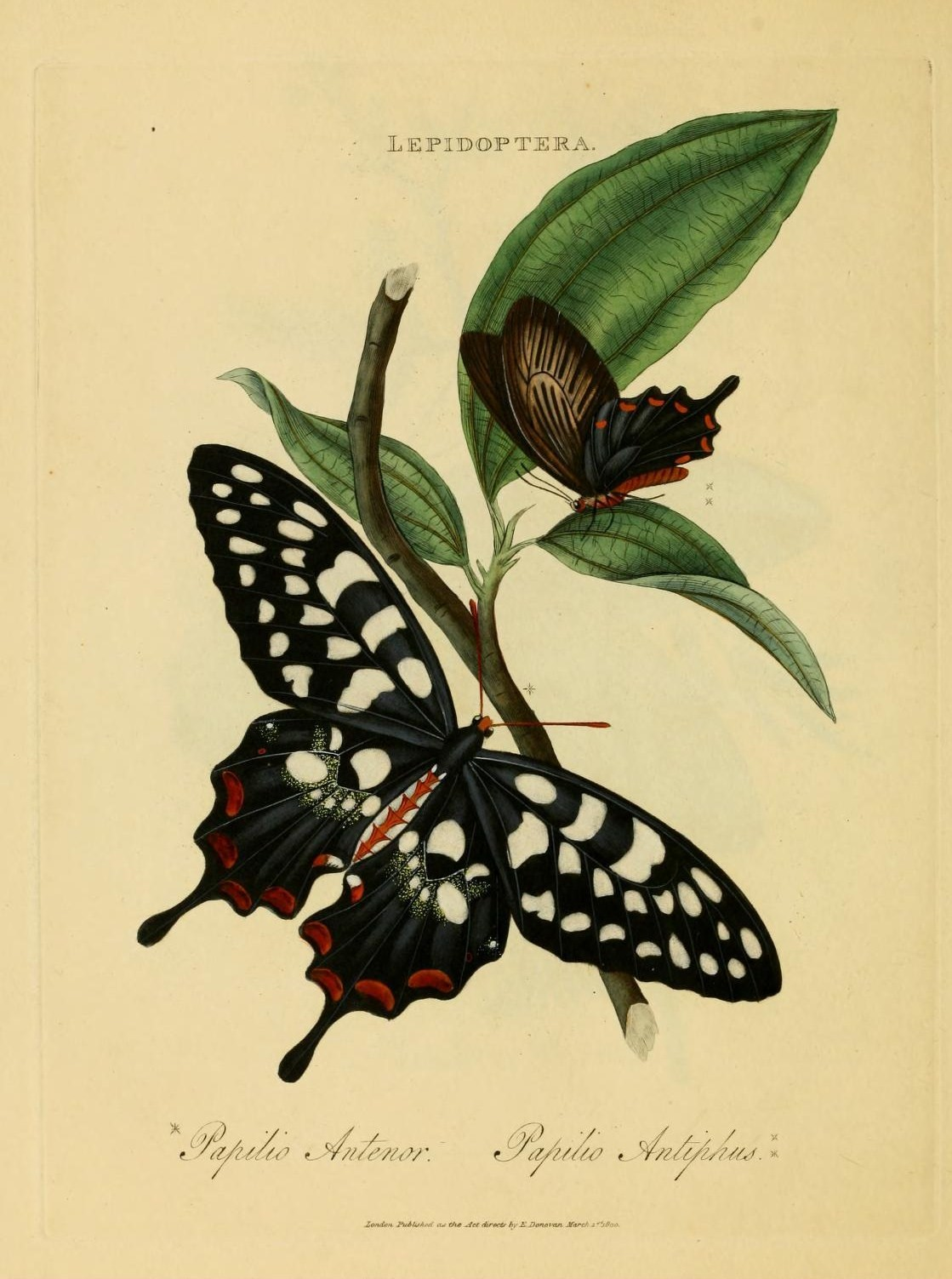 Edward Donovan An Epitome of the Natural History of the insects of India [1800] Papilio antiphus (Fabricius, 1793) synonym for Pachliopta antiphus Page & Treadaway, 2003 Papilio antenor synonym for Papilio antenor Pharmacophagus antenor (Drury, 1775)